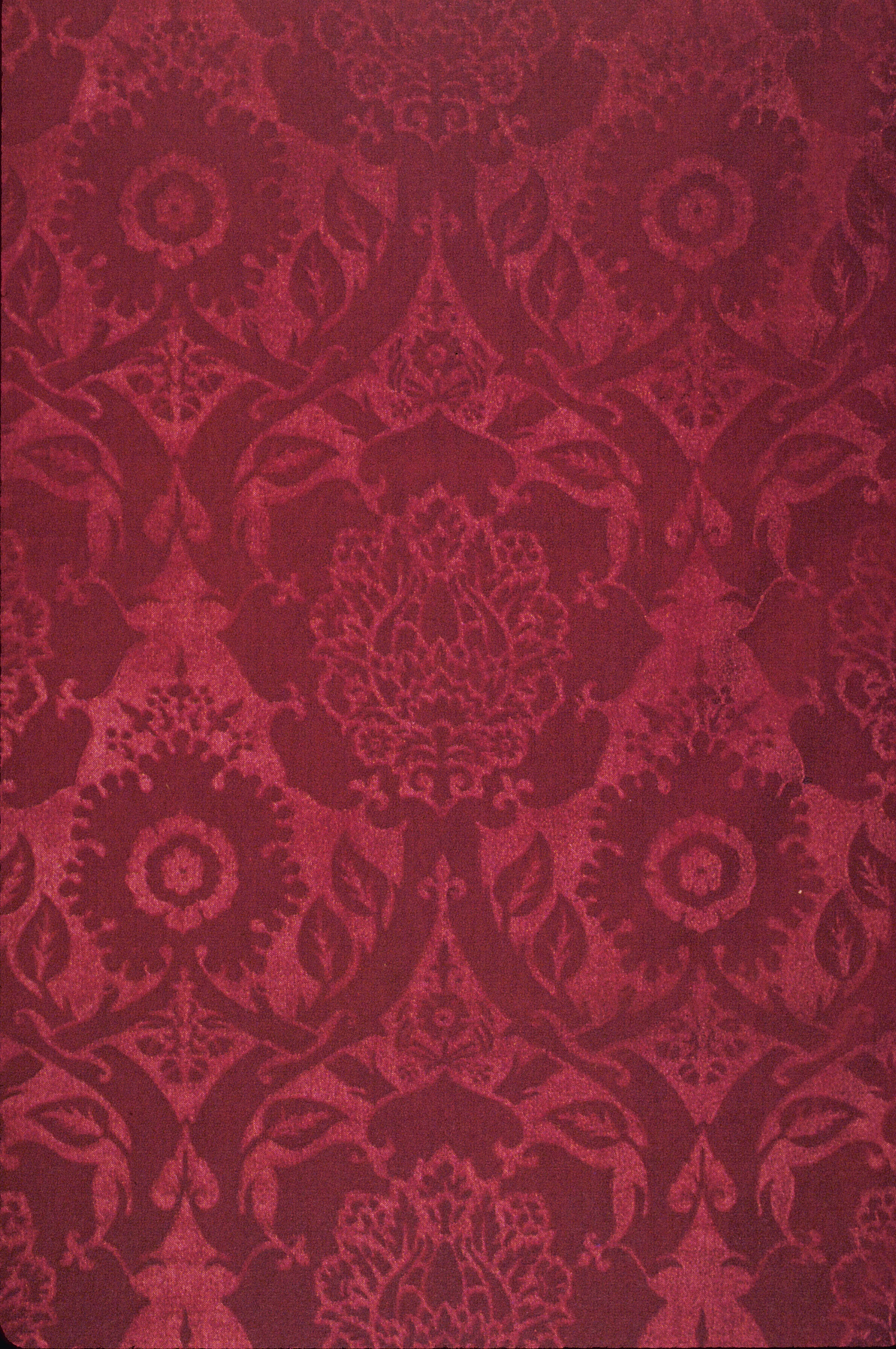 Acorn embossed silk velvet, late pattern adapted from an historical design by Morris and Co., before 1912. (Identification from Linda Parry: William Morris Textiles, New York, Viking Press, 1983, ISBN 0-670-77074-4, p.169)